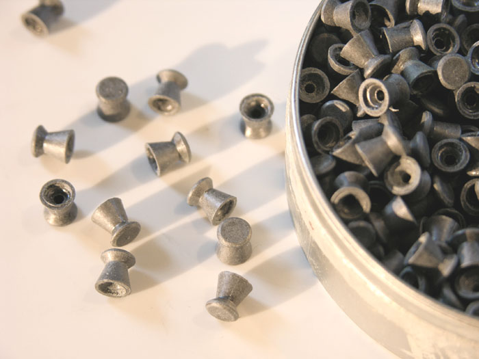 Lead shot (toxic metal ; lead-poisoning factor)- like Yo-Yo/Diabolo form - for airgun